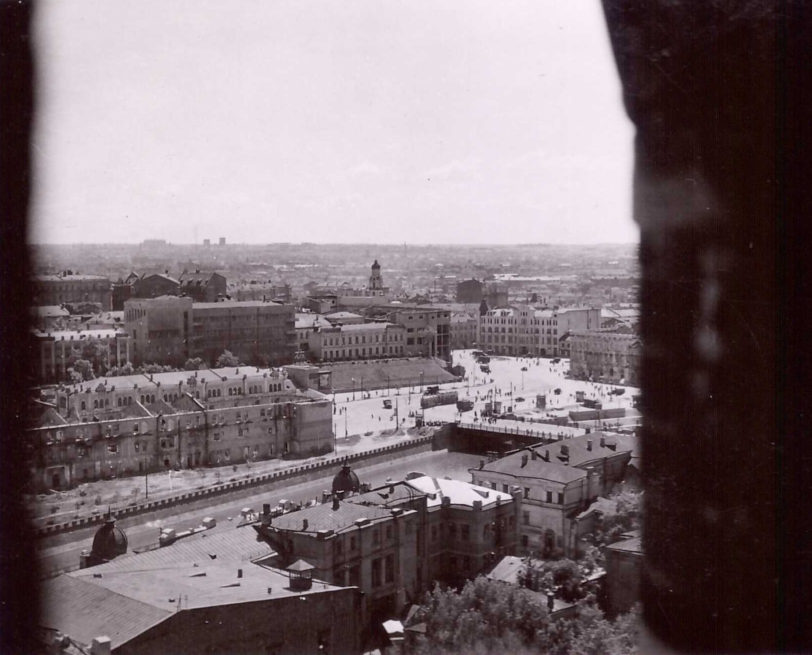 Charkiw - view from elevated Building